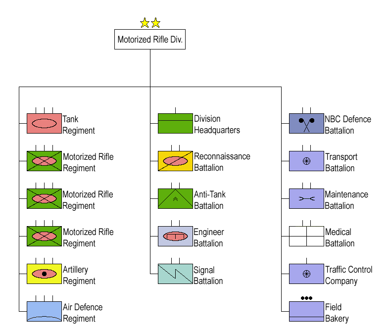 Structure of a Cold War era Romanian Motorized Rifle Division.